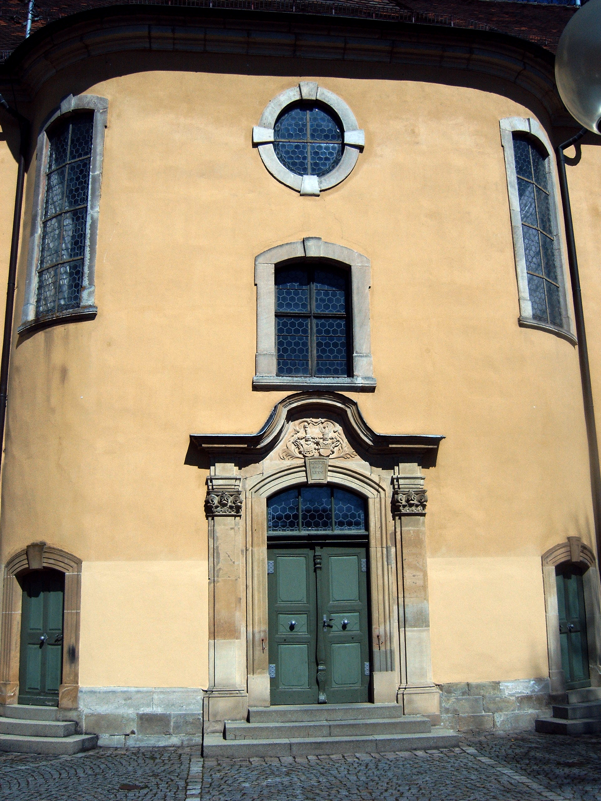 Entrance to the church in Alfdorf, Germany